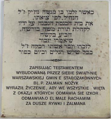 Trip to the Nozyk Synagogue